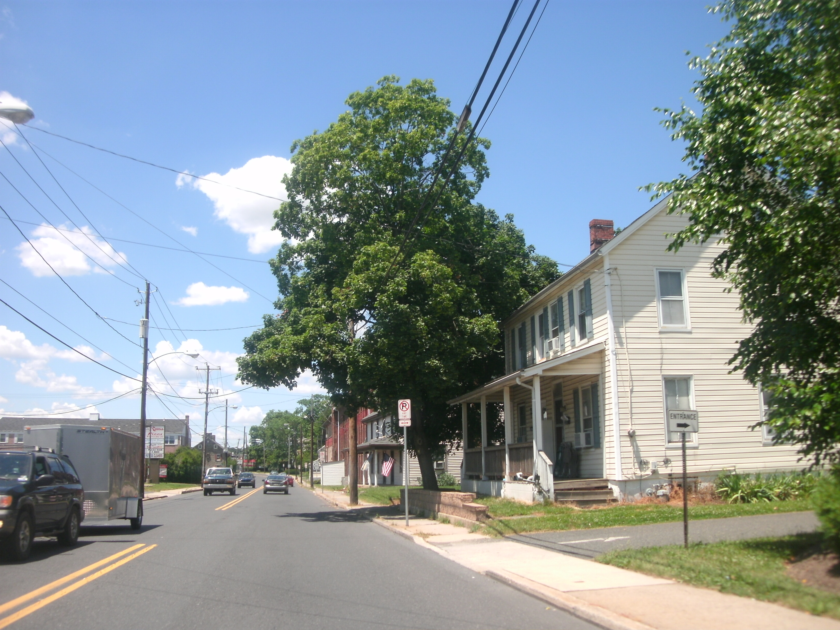 Pennsylvania Route 313 westbound through the borough of Quakertown, Pennsylvania.